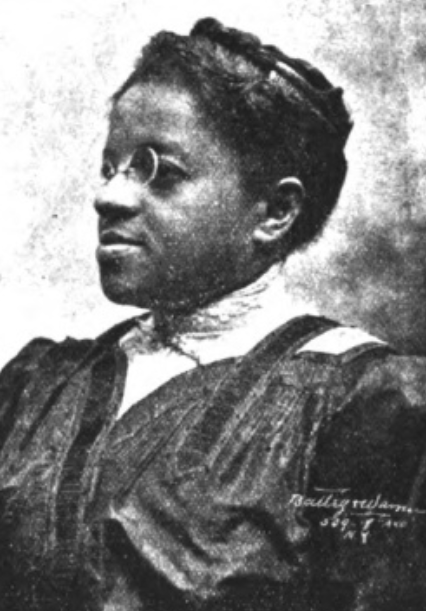 African-American businesswoman, UNIA activist and suffragette, Irene L. Moorman-Blackstone